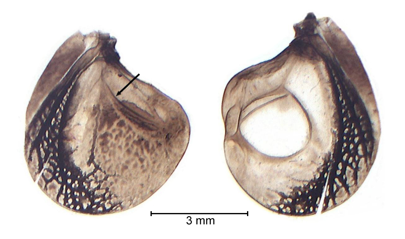 Left and right forewing of an adult male. The arrow points to the active file